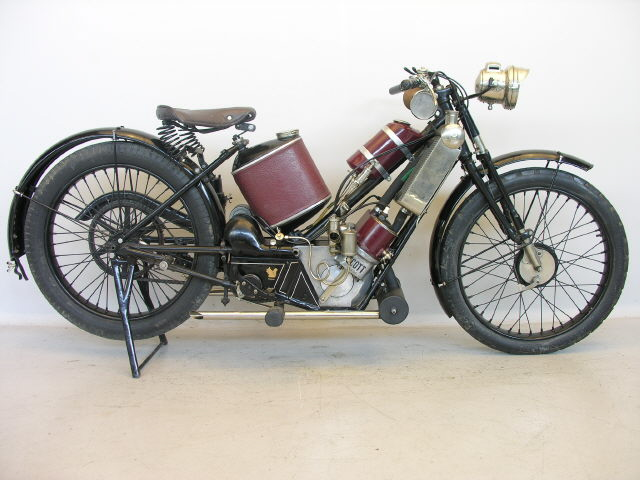 1923 Scott Squirrel 486cc.